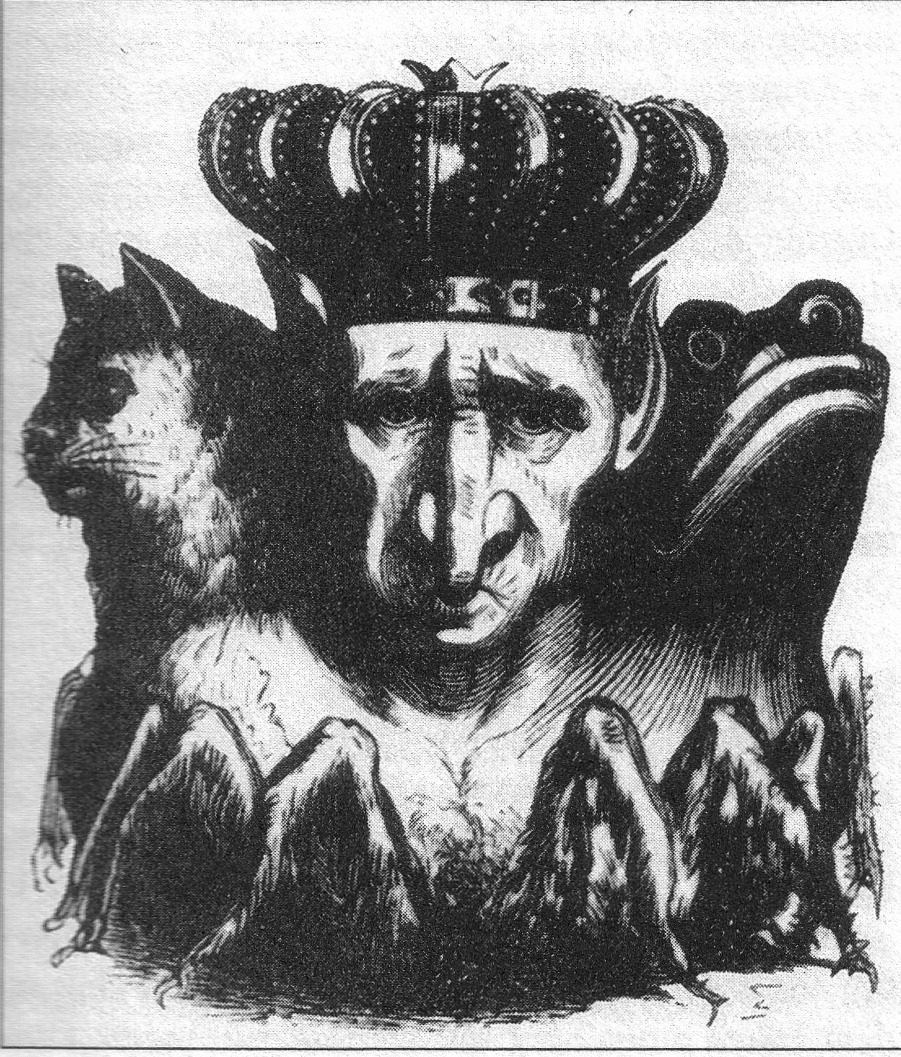 Baël, Medium woodblock, from J.A.S. Collin de Plancy. Dictionnaire Infernal. Paris: E. Plon, 1863. Page 71. Note: Demon described in le Grand Grimoire as being high among the infernal powers....he teaches those that invoke him to disappear at will.